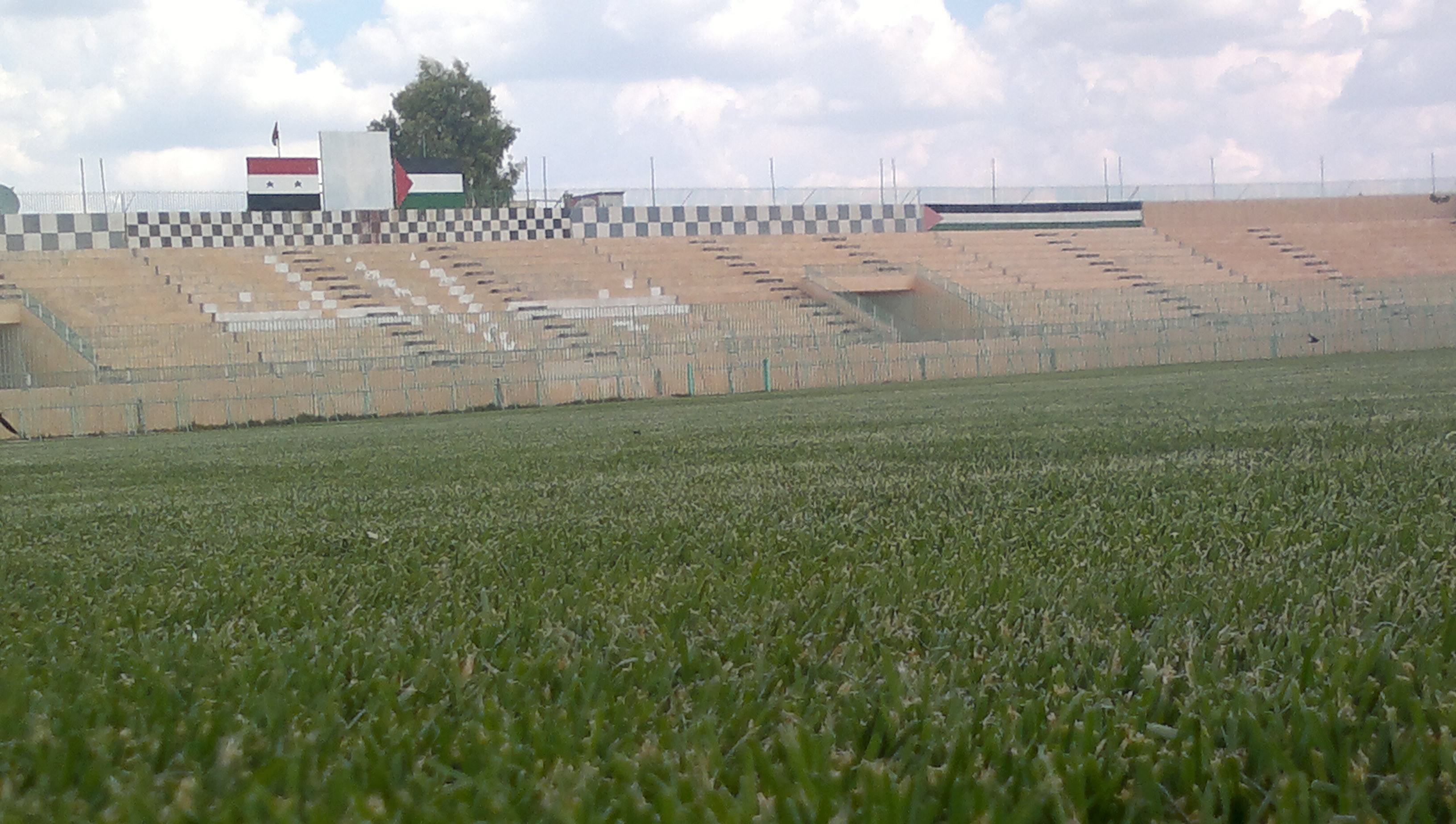 Qamishli 7 April Municipal Stadium, Syria.